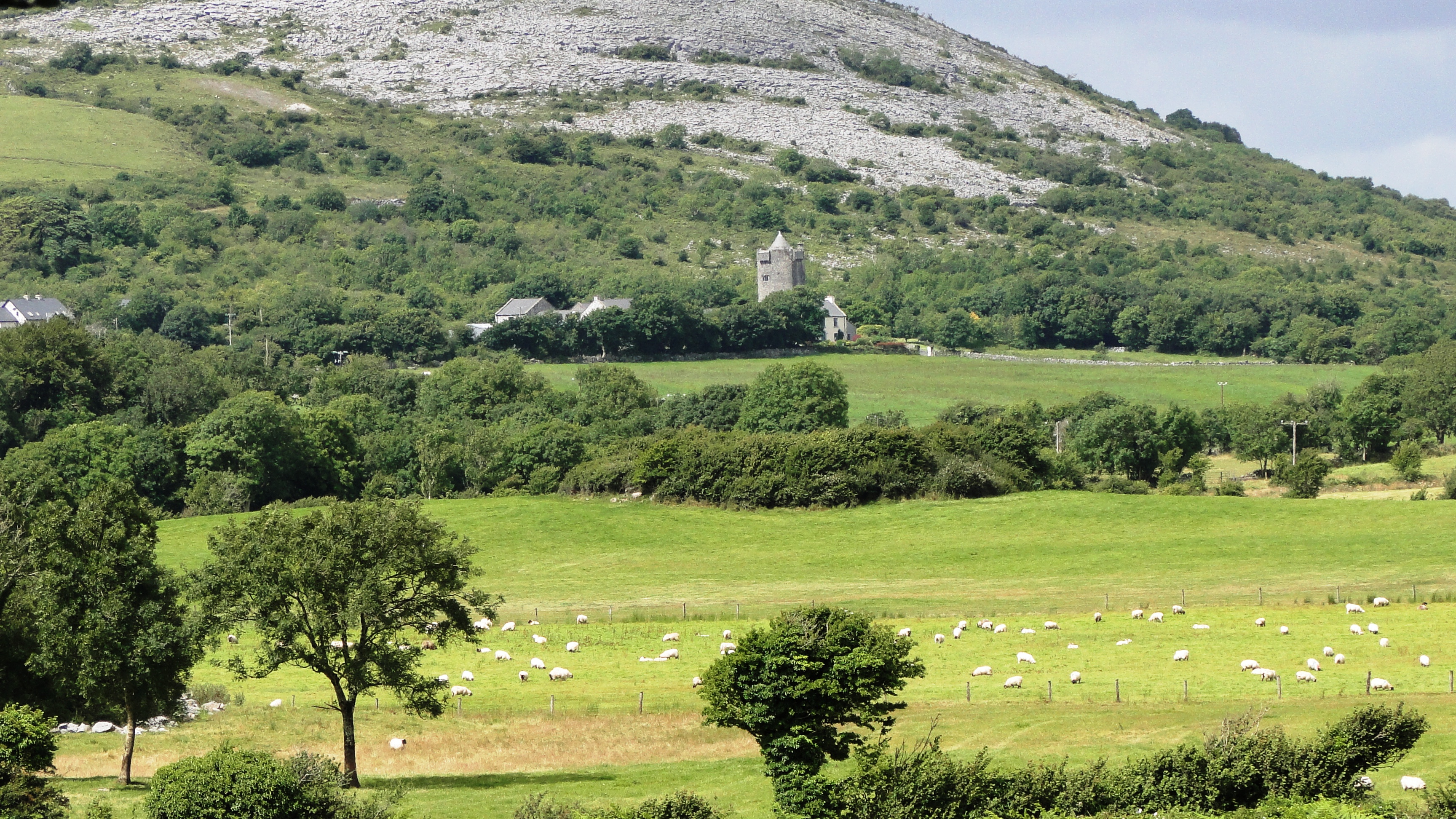 Newtown Castle, County Clare, situated in the valley of Ballyvaughan